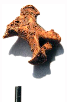 Humerus bone of extinct Tyrrhenian mole (Talpa tyrrhenica Bate, 1945) from a Middle Pleistocene site in Corse-du-Sud, Corsica, France.